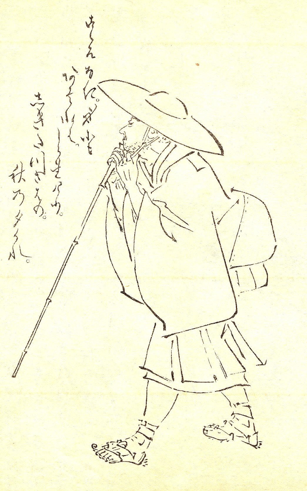 Saigyō Hōshi (Japanese: 西行法師) was a famous Japanese poet of the late Heian and early Kamakura period.This picture was drawn by Kikuchi Yosai（菊池容斎） who was a painter in Japan.